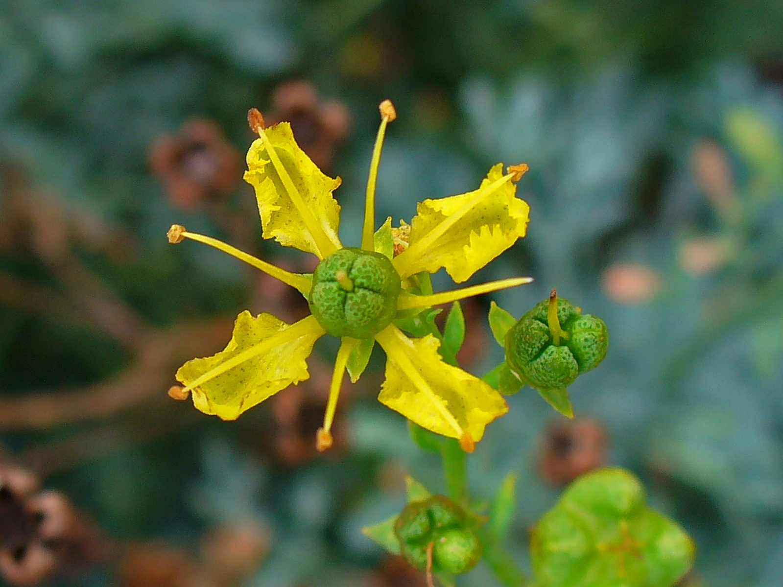 Ruta graveolens, Rutaceae, Common Rue, Herb-of-grace, flower. Botanical Garden KIT, Karlsruhe, Germany.